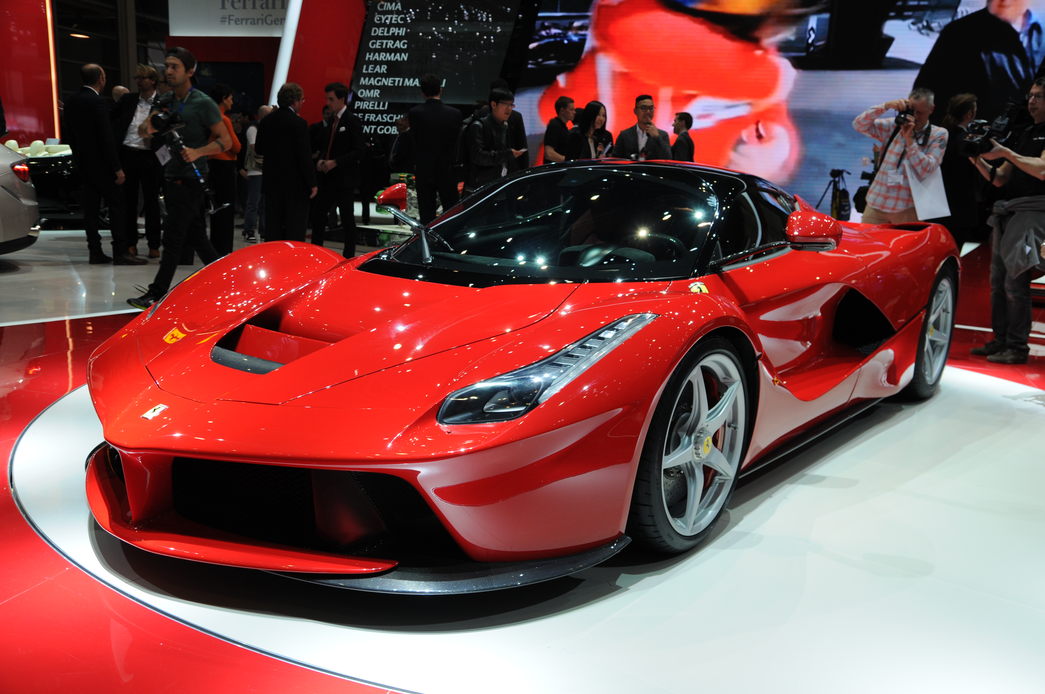 LaFerrariGeneva Motor Show 2013 (photos taken on the first press day)